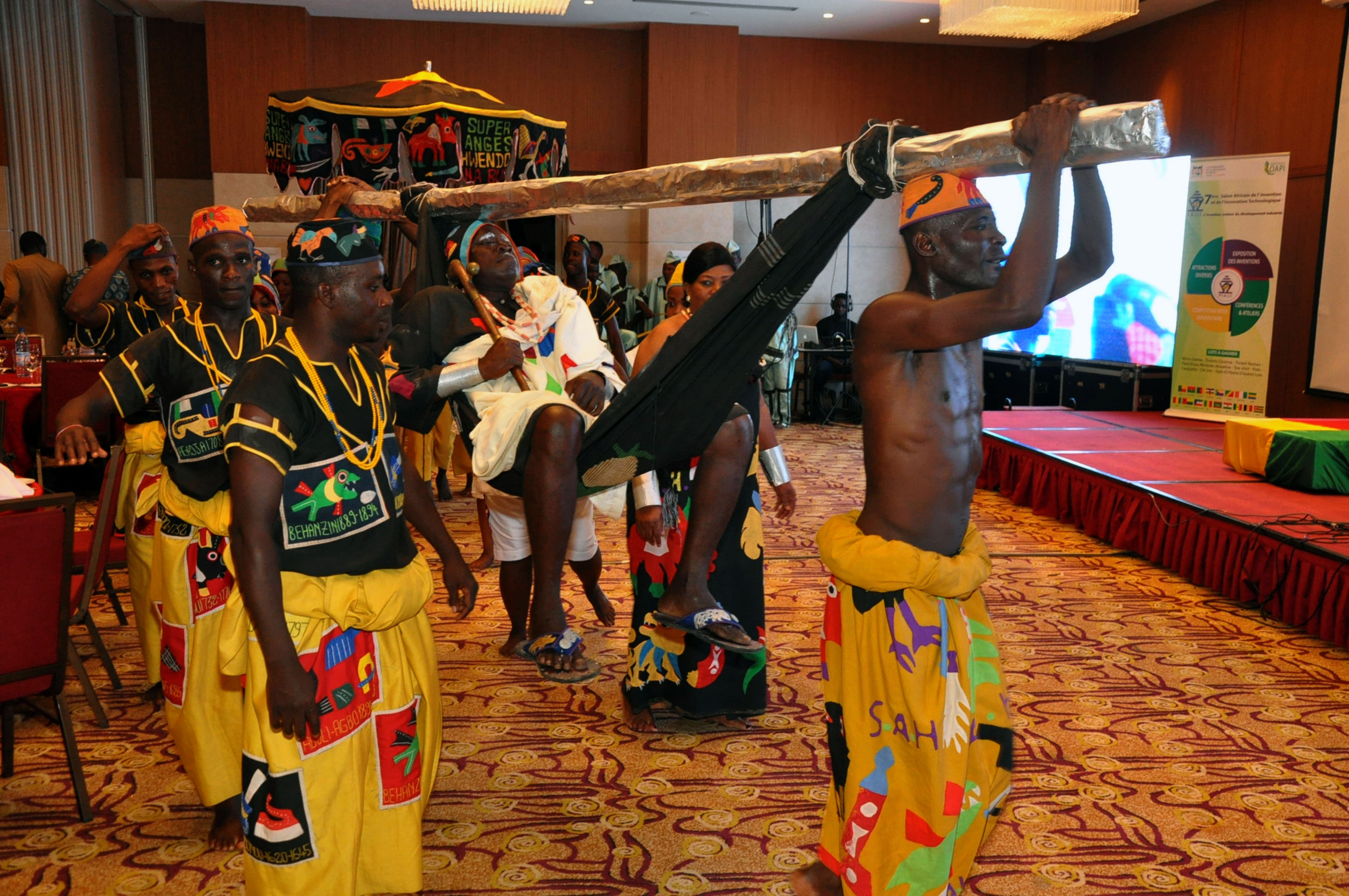 scene on king marthys Béhanzin This is an image with the theme "Africa on the Move or Transport" from: Benin